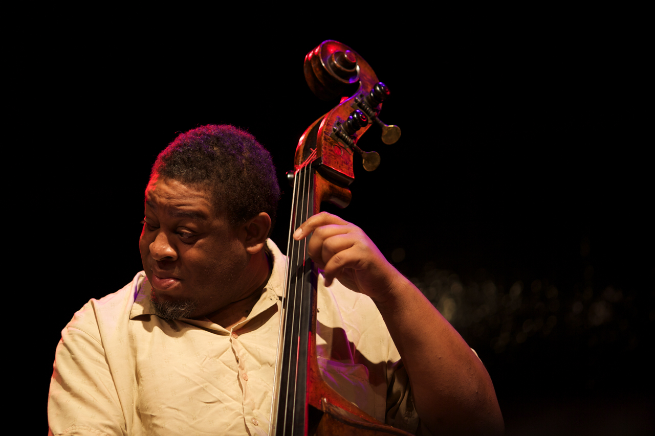 Bassist Dwayne Burno in live concert performance at the 14º International Jazz Festival of Punta del Este.